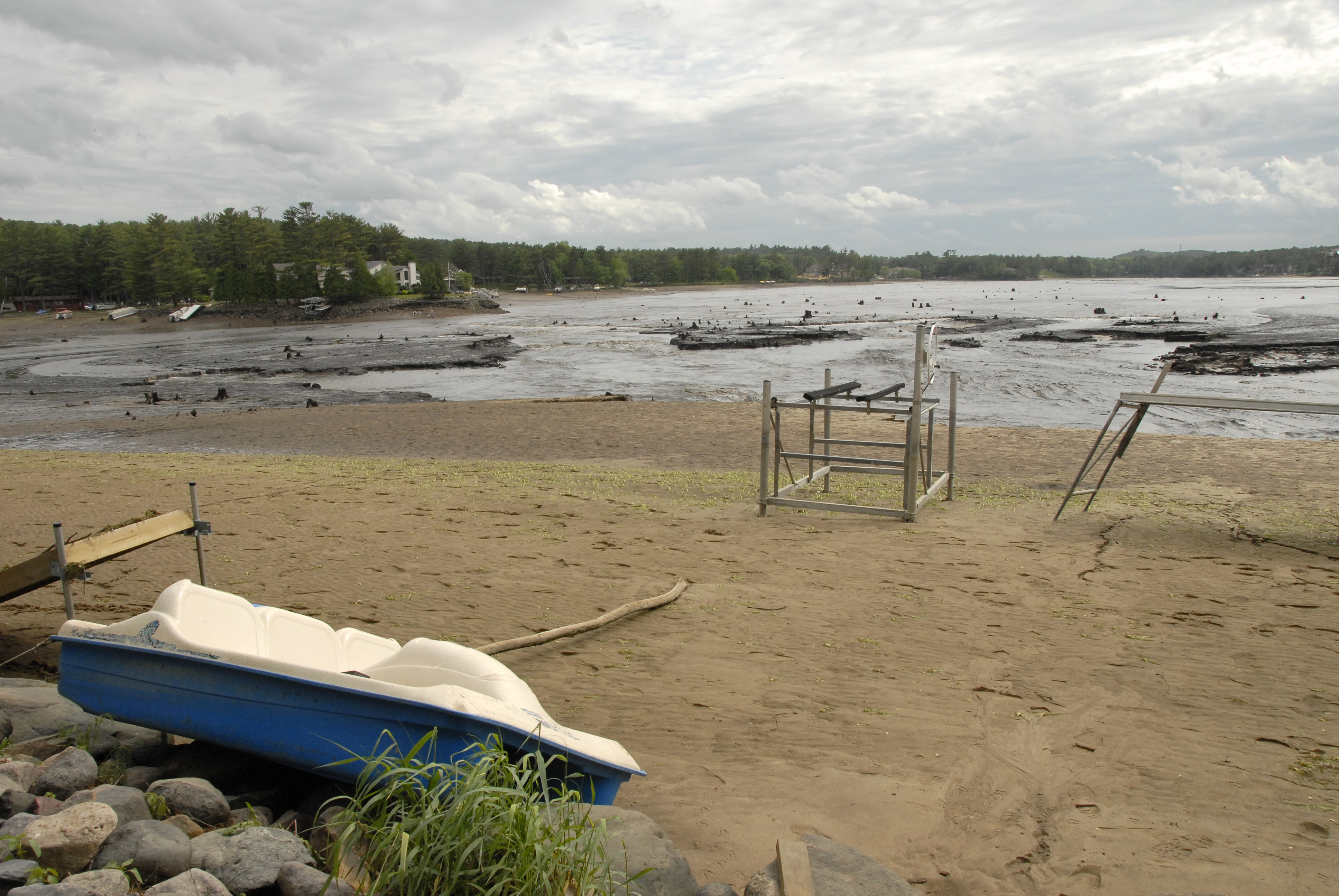 Heavy rains in the Midwest caused a 245-acre lake in the town of Lake Delton, Wis., to overflow June 9, 2008, destroying several homes as it breached a local highway, and completely drained into the nearby Wisconsin River. Serious flooding throughout the State of Wisconsin prompted the governor to declare a state of emergency, allowing Wisconsin's Adjutant General, Brigadier General Don Dunbar to activate National Guard troops to assist in the relief effort. (U.S. Air Force photo by Master Sgt. Paul Gorman/Released)